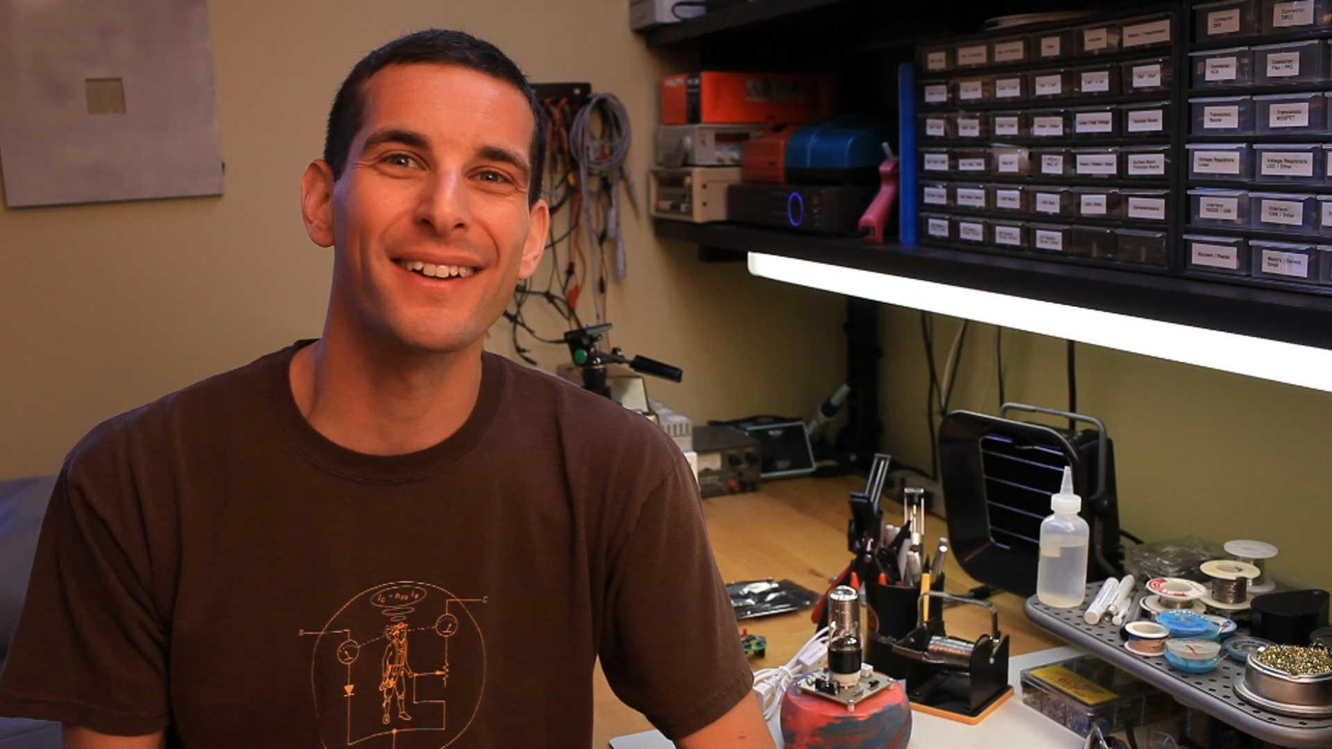 Framegrab from raw video footage from Joe Grand Interview, conducted January 17, 2012, San Francisco, CA.